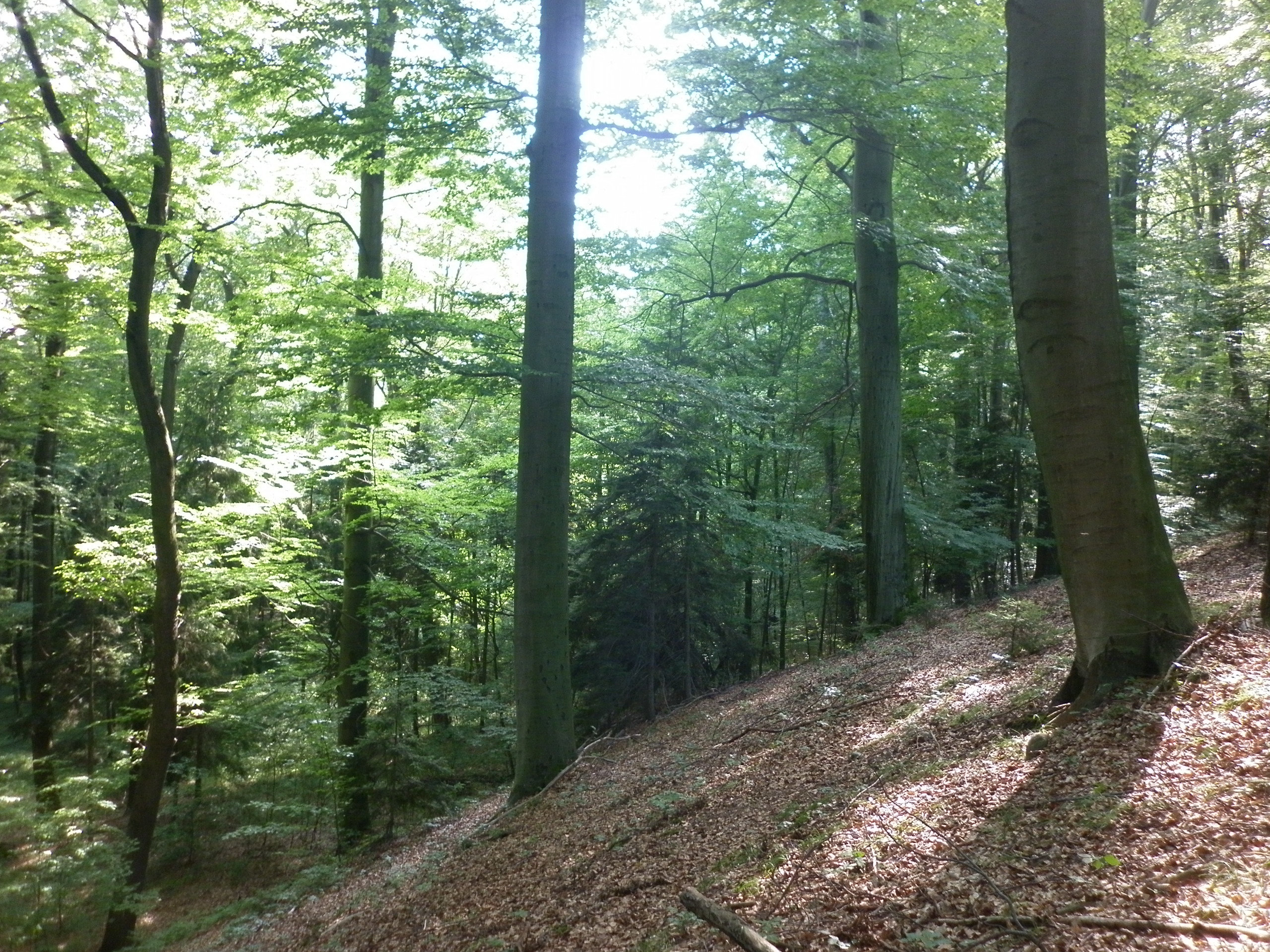 Natural reserve U parku near Vysoké Chvojno in Pardubice District. Old fir and beech forest with rare plant and animal species, geologically a marl ("opuka") slope.